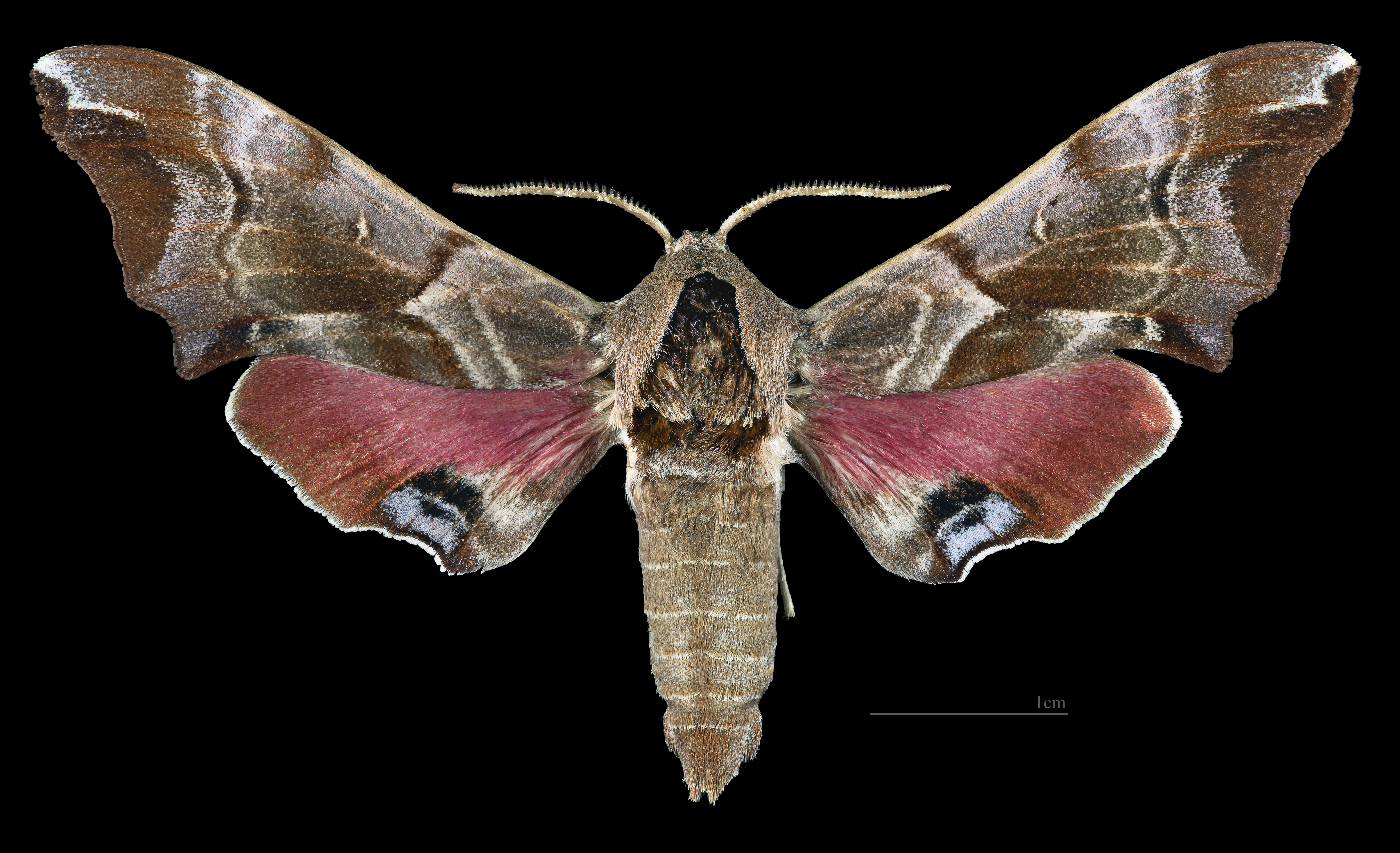 Smerinthus kindermannii - Dorsal side Collection of the Mathematician Laurent Schwartz